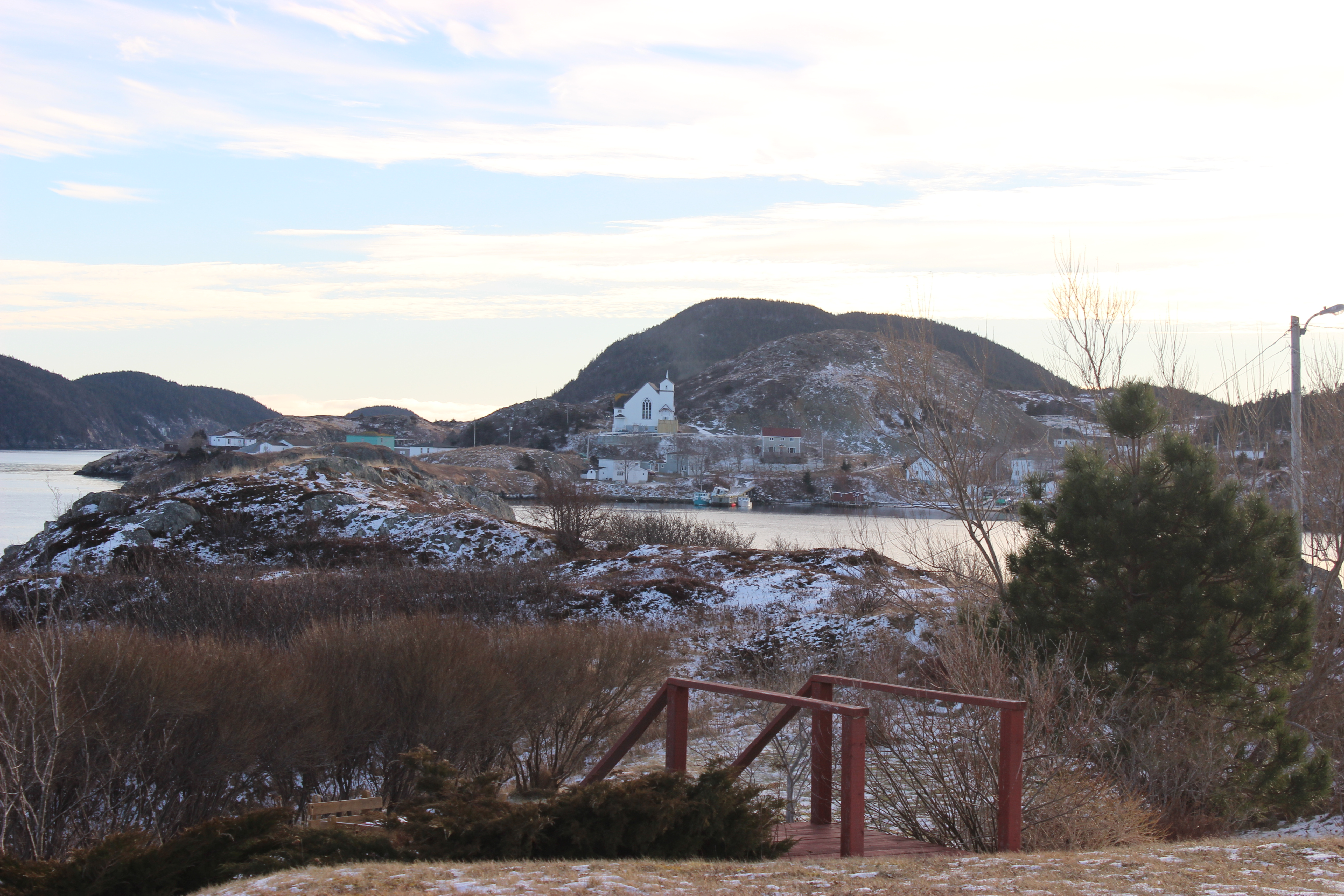 Burin Peninsula, southern coast of Newfounland.